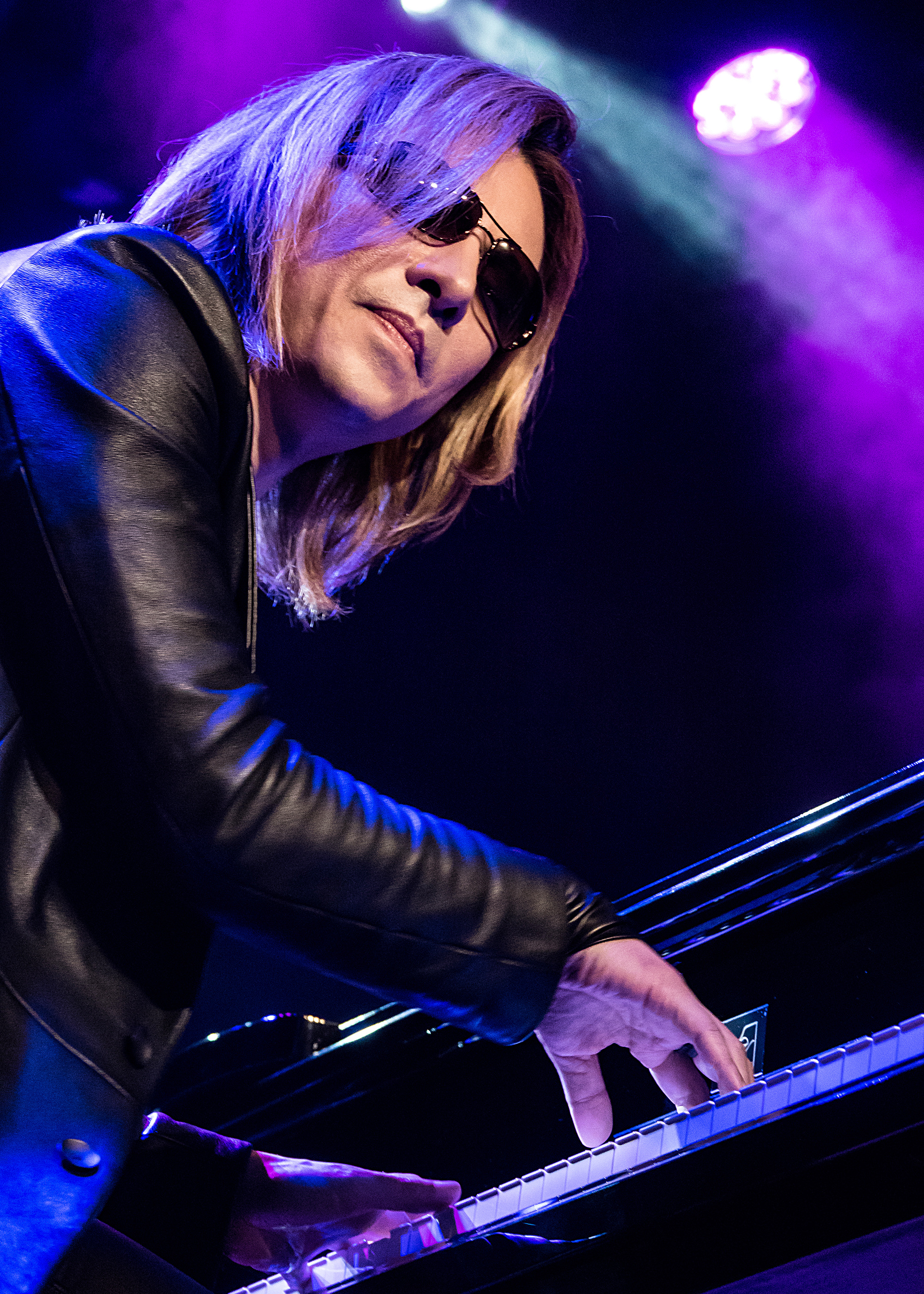 Yoshiki (of the band X Japan) performs live and participates in a Q&A session at Mezzanine nightclub in San Francisco California on Tuesday October 25th, 2016. The performance was part of the premiere screening of the film "We Are X", a documentary about Yoshiki's legendary rock band. The director of the film Stephen Kijak also participated in the Q&A session.